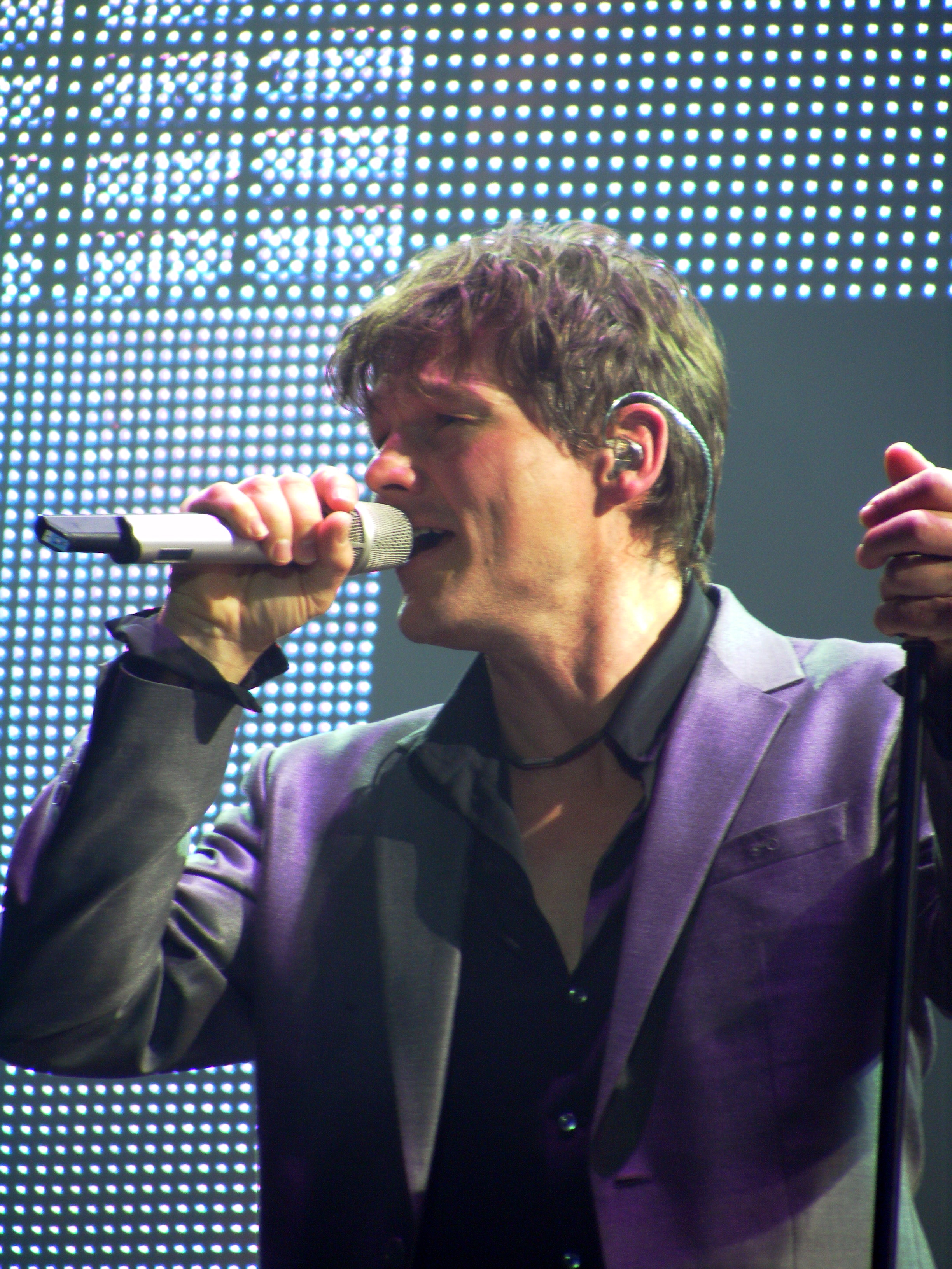 Morten Harket, singer of A-Ha, performing live at Irving Plaza in NYC 09-12-05